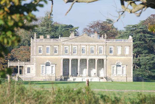 Crichel House, Moor Crichel Taken from the end of the drive. Not allowed any closer.